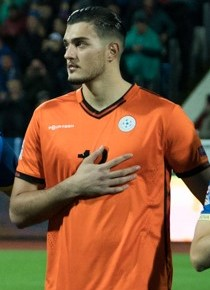 Arijanet Muric in Kosovo national team